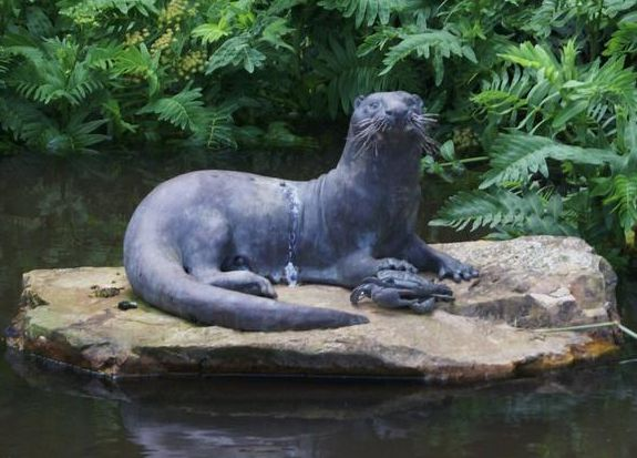 Statue of a Cape Clawless Otter